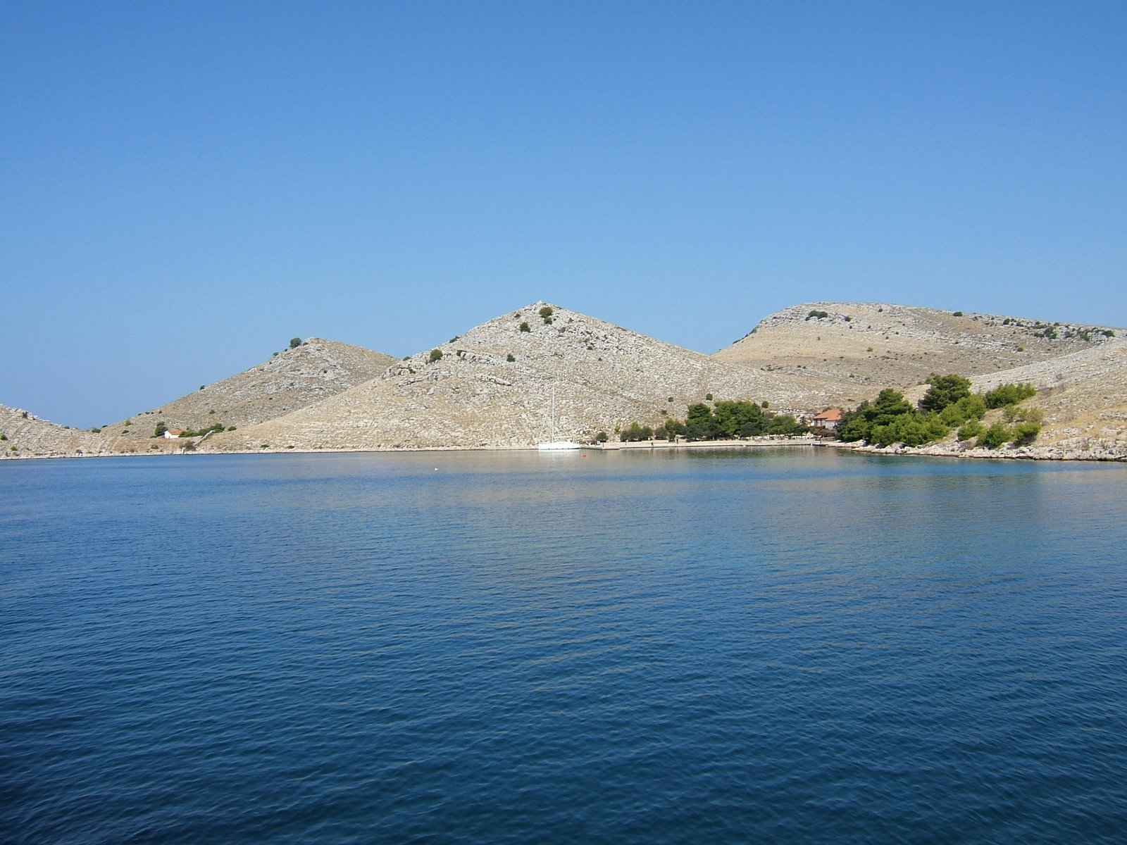 Kornat island in the Kornati islands archipelago, Croatia.